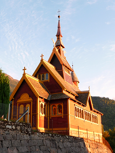 St. Olaf's Church in Balestrand, Sogn og Fjordane, Norway